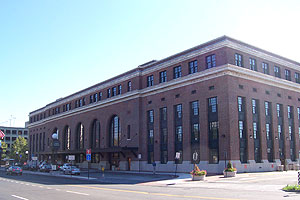 New Haven Union Station in September 2005